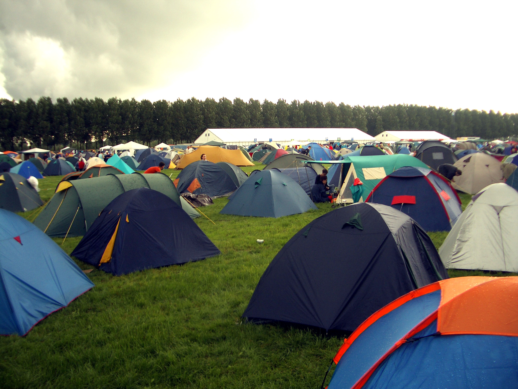 Tents at the camping site at the Lowlands festival, the Netherlands.IMGP3056